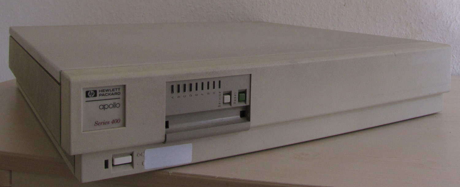 Front side of a HP9000 400t without a shutter for the reset and service buttons.